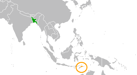 Map showing locations of both Bangladesh and East Timor